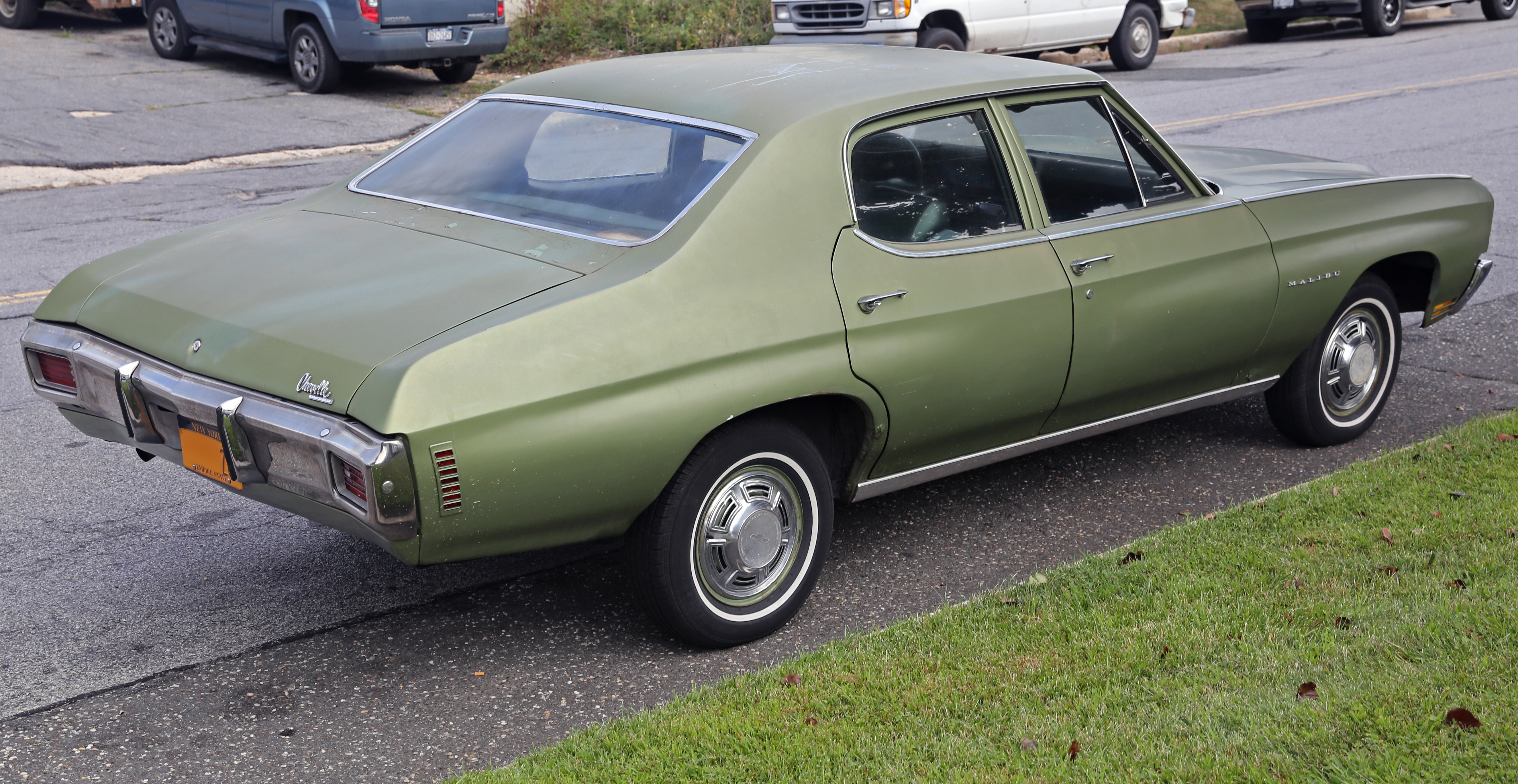 A 1970 Chevrolet Chevelle Malibu four-door sedan (model 13569), with the 250 (4.1L) inline-six with 155hp. Built in Arlington.